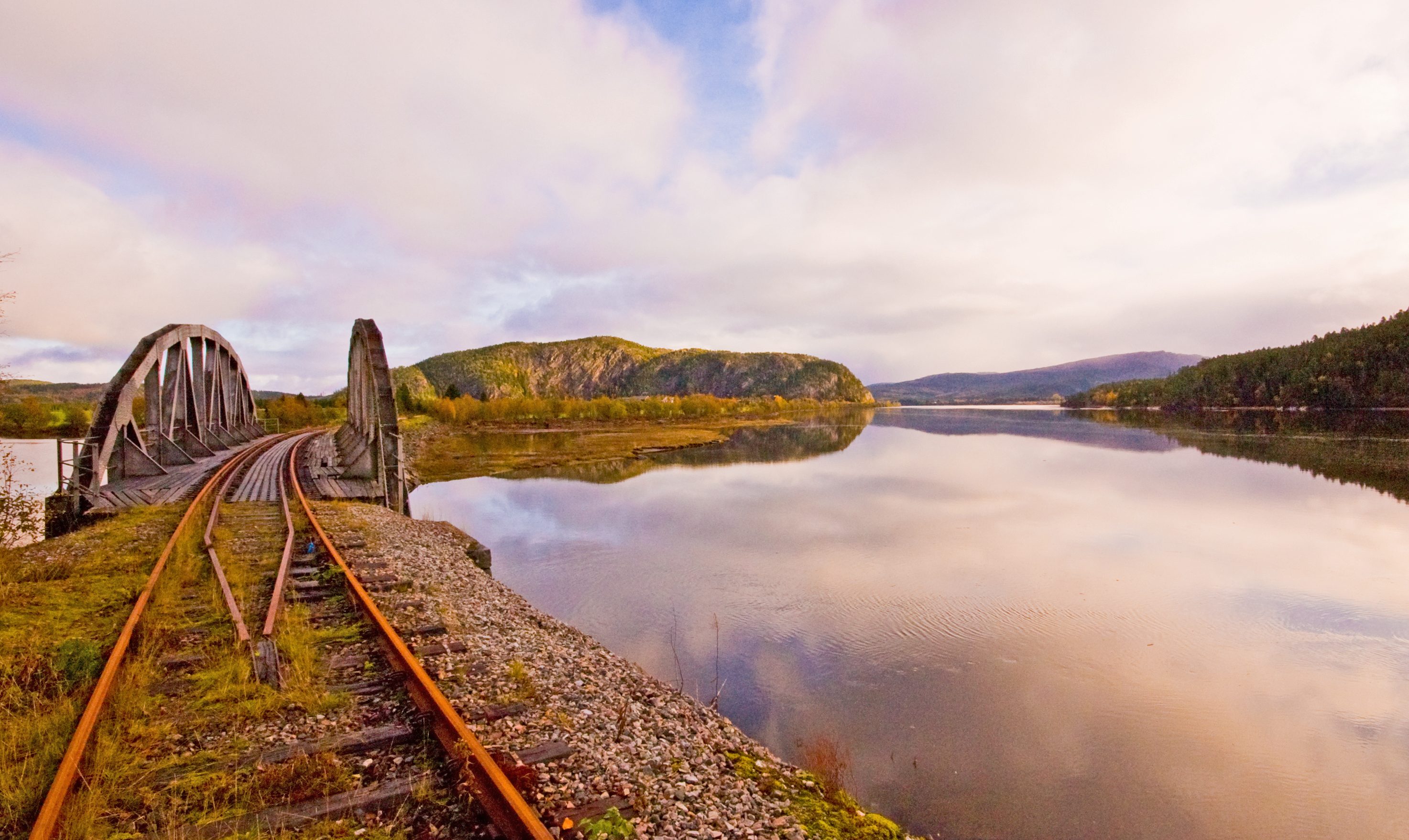 Derelict railway bridge Meosen Namdalen - Norway